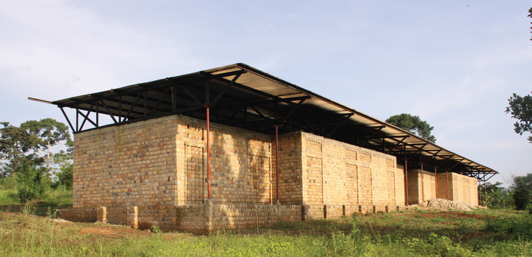 The Academy was designed & funded by students at the University of Virginia.